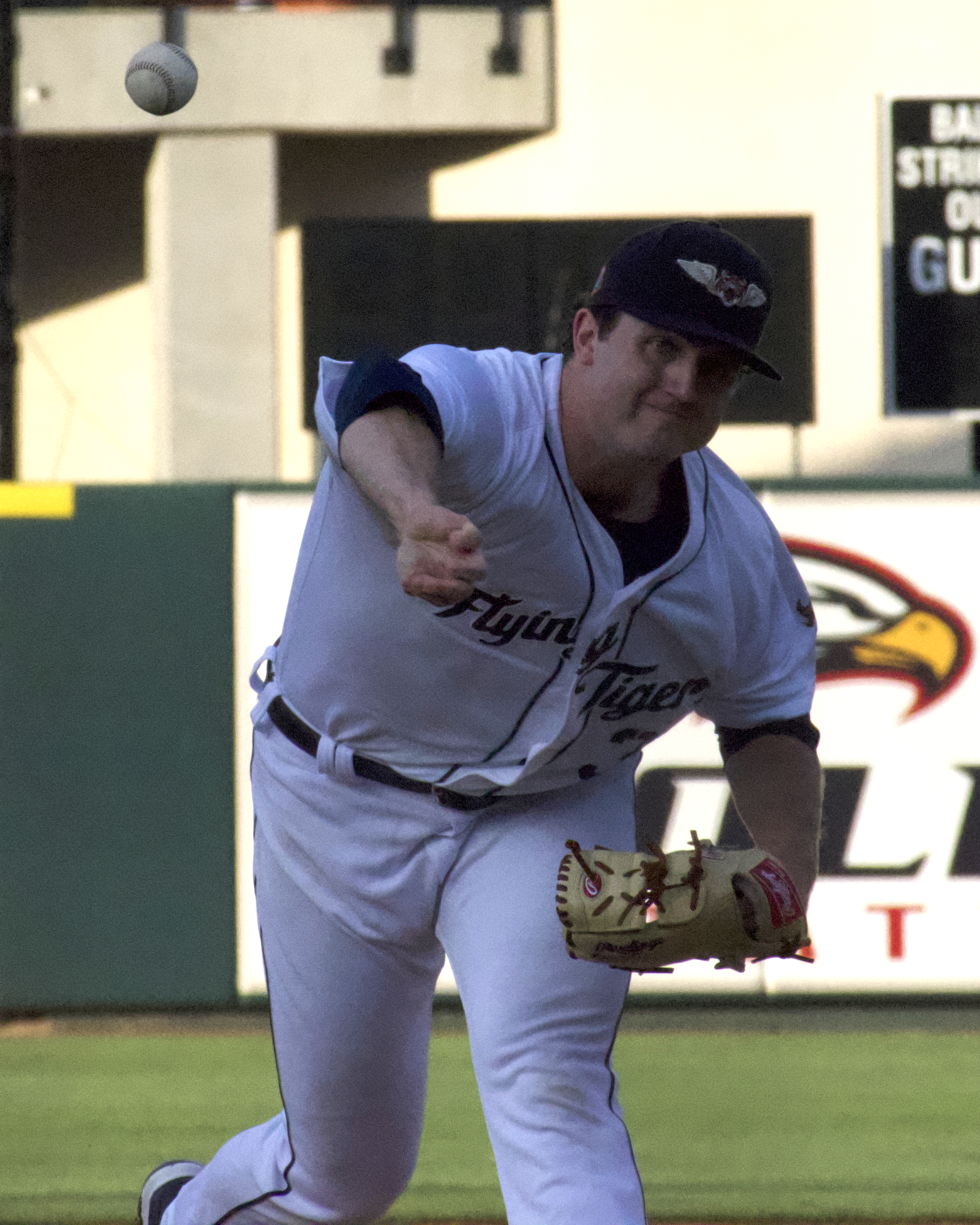 Casey Mize delivers a pitch for the Lakeland Flying Tigers in 2019.